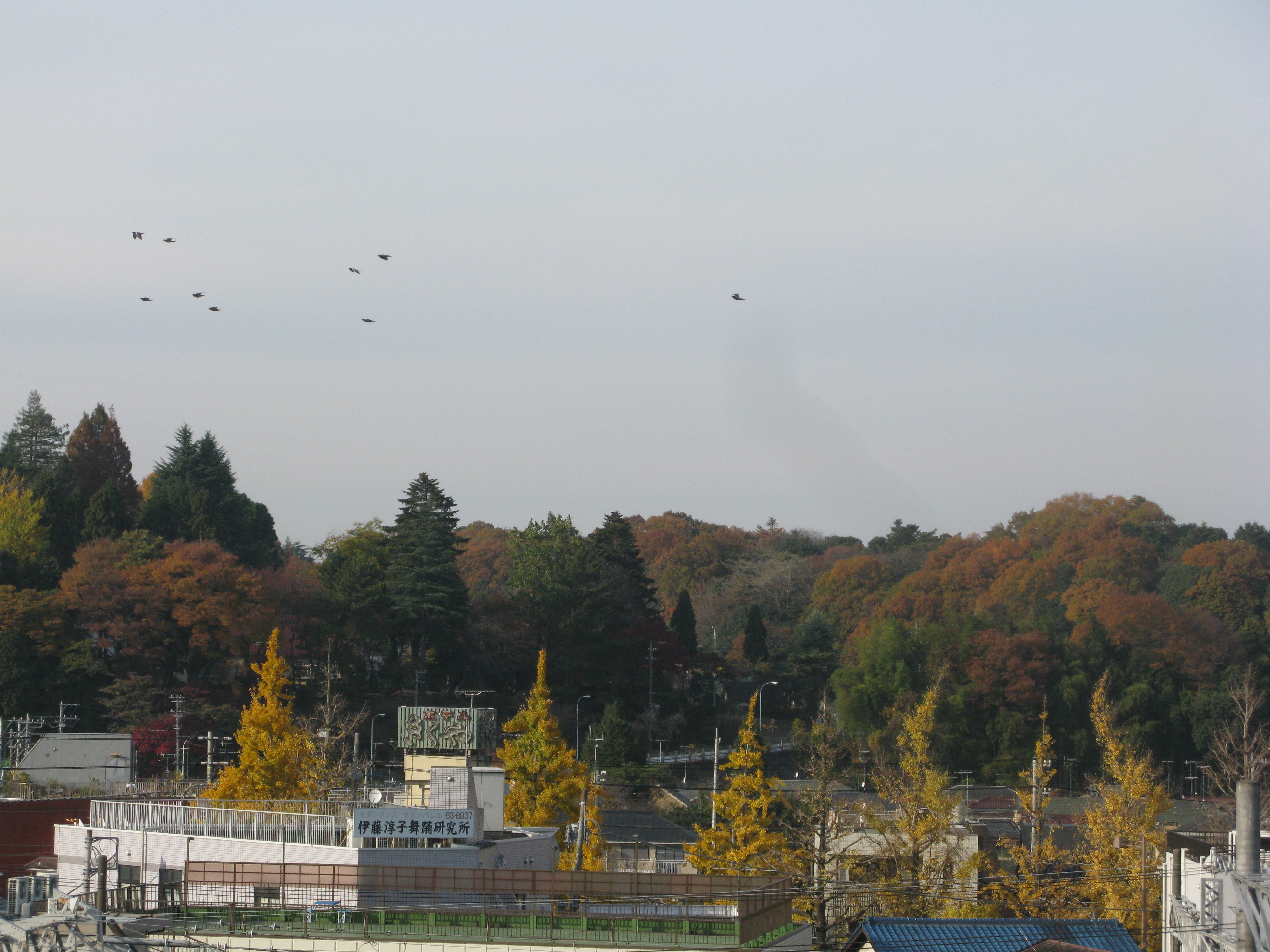 Takao Kaidō entrance view, from the railway platform of Keio Takao station.